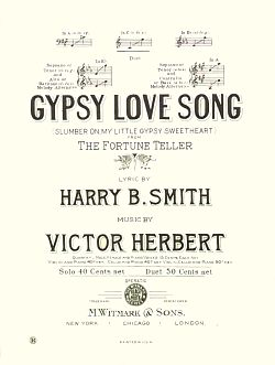 Sheet music to "Gypsy Love Song" from the operetta The Fortune Teller, 1898